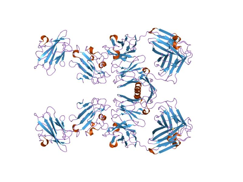 Cartoon representation of the molecular structure of protein registered with 1ynt code.